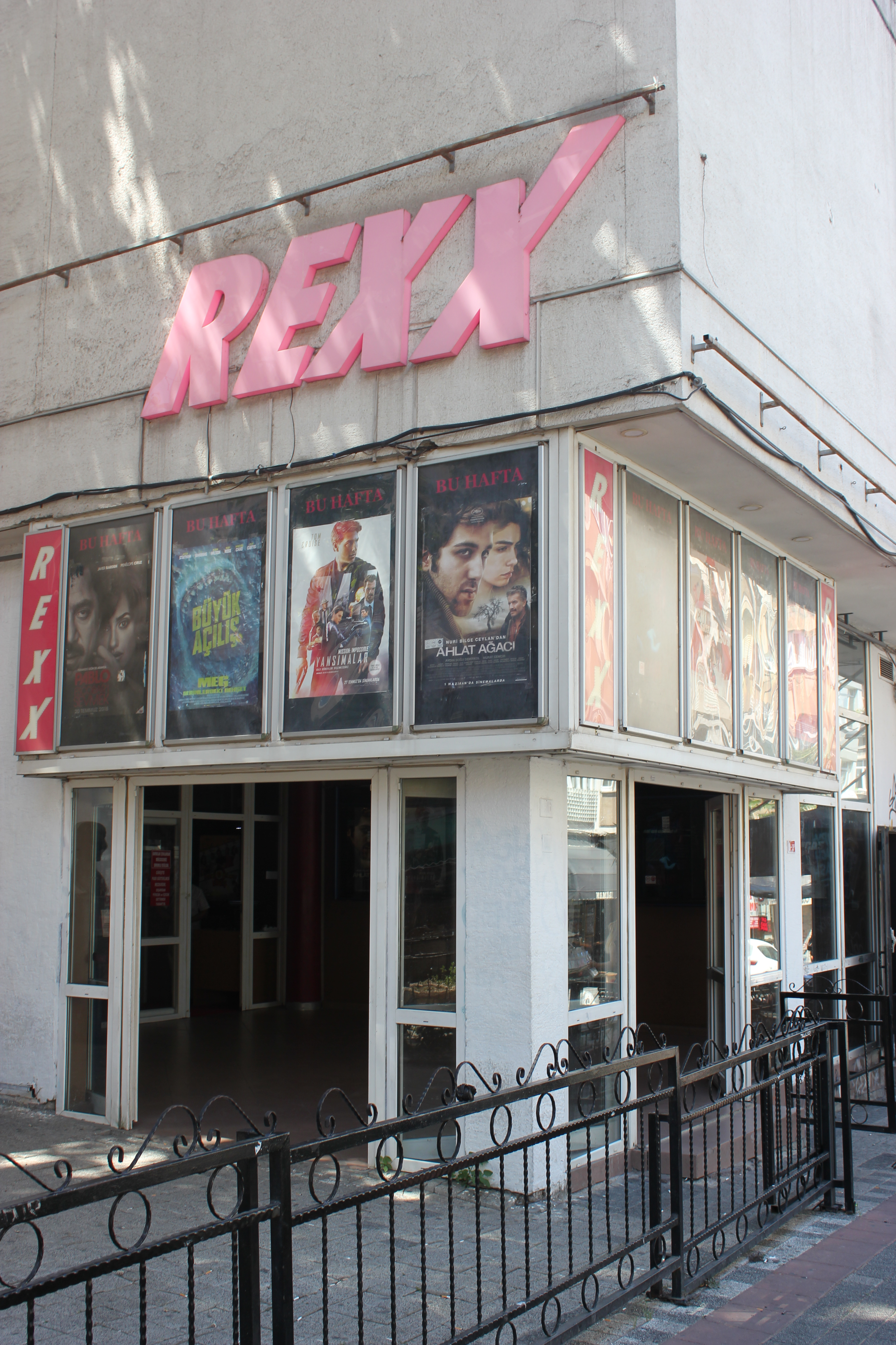 movie theater in Kadikoy, Istanbul.